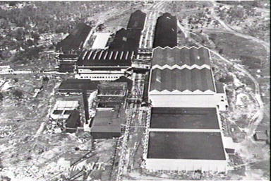 Black and white ariel photo of Vestey's Meatworks taken in the 1930s. Original print held by the Northern Territory Library and Information Service. Photo number: PH0276/0008.